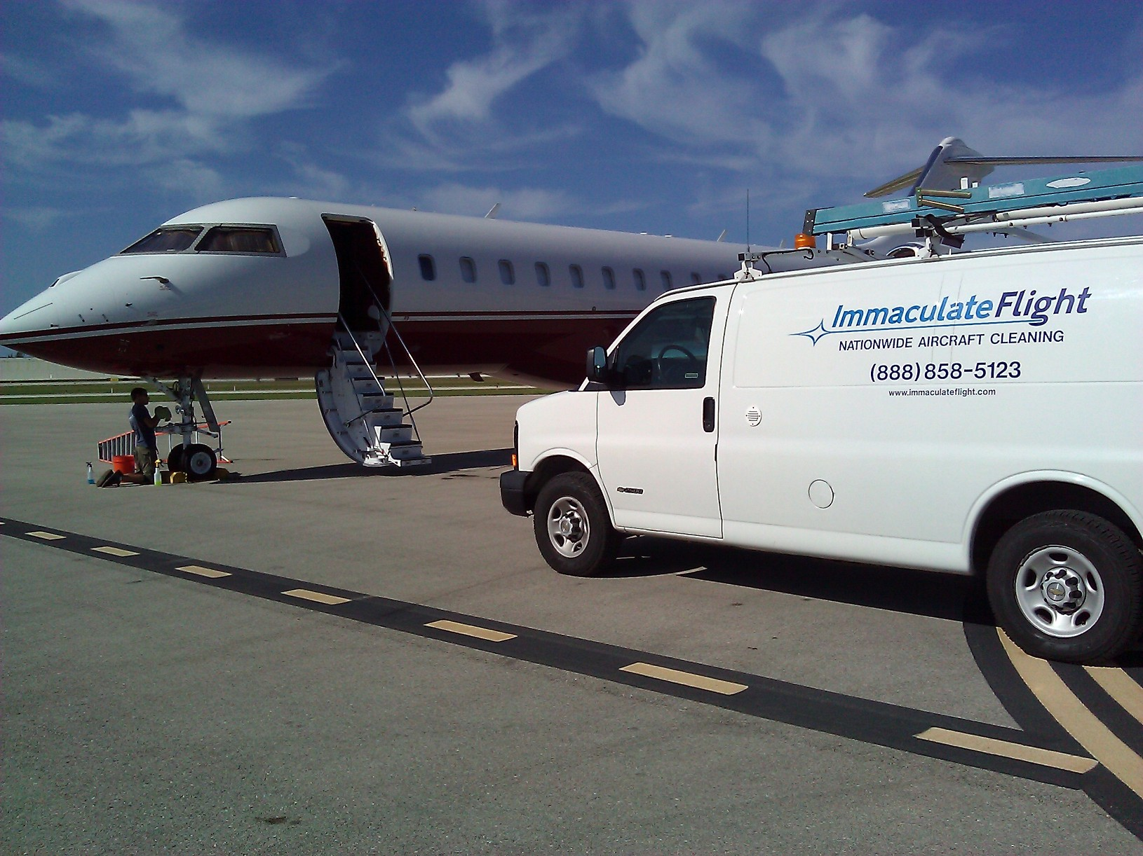 This photograph is my own work. It shows the team at Immaculate Flight working on one of their client's Global Express Aircraft.